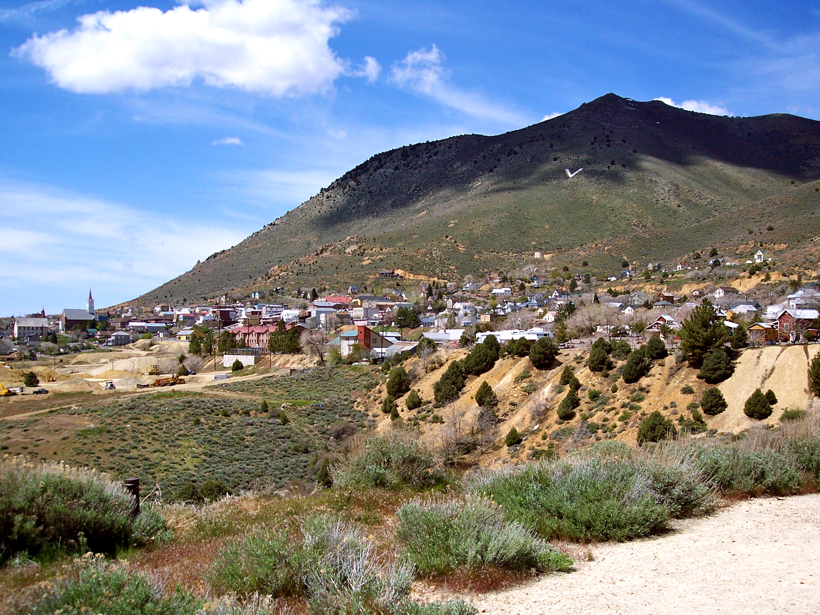 As seen from the Mason's cemetery